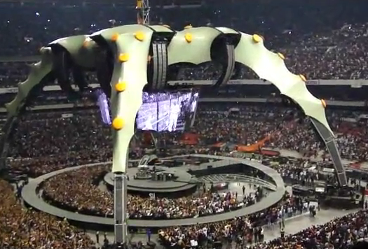 Estadio Azteca U2 Tour 360 Ciudad de Mexico